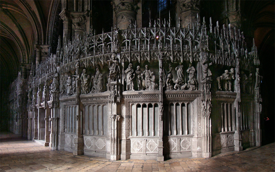 Chartres Cathedral, Eure-et-Loir, Centre, France. The monumental screen around the choir.